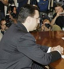 CHISINAU. With Marian Lupu, leader of the Democratic Party of Moldova.